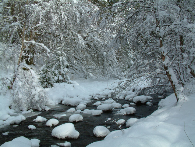 Snow at Ravens Rock